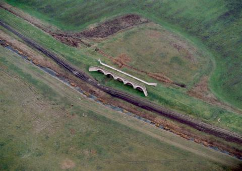 Zádor bridge, Karcag, Hungary, aerial photography.